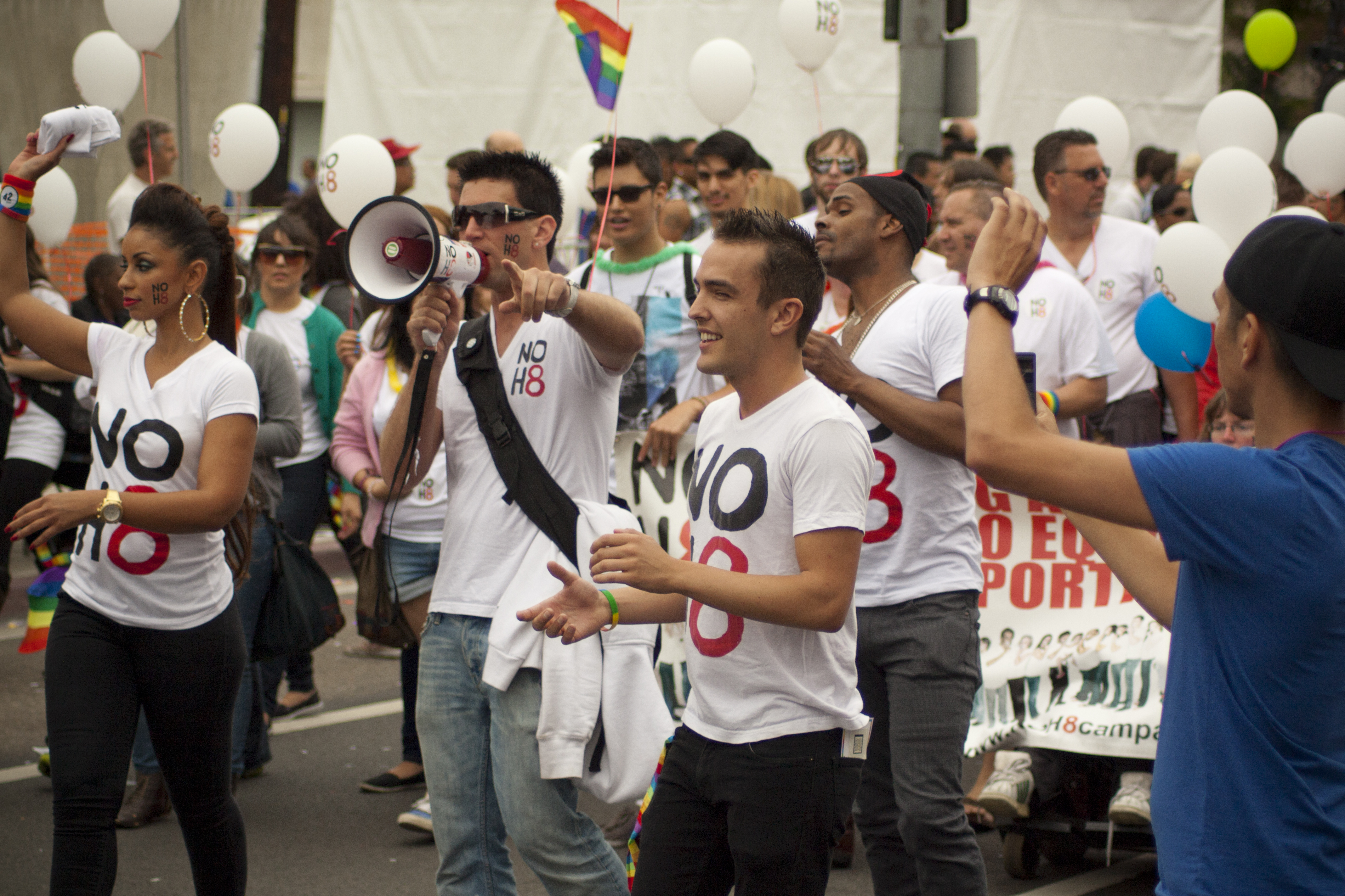 NOH8 Campaign at Los Angeles Pride 2011 (June 12).